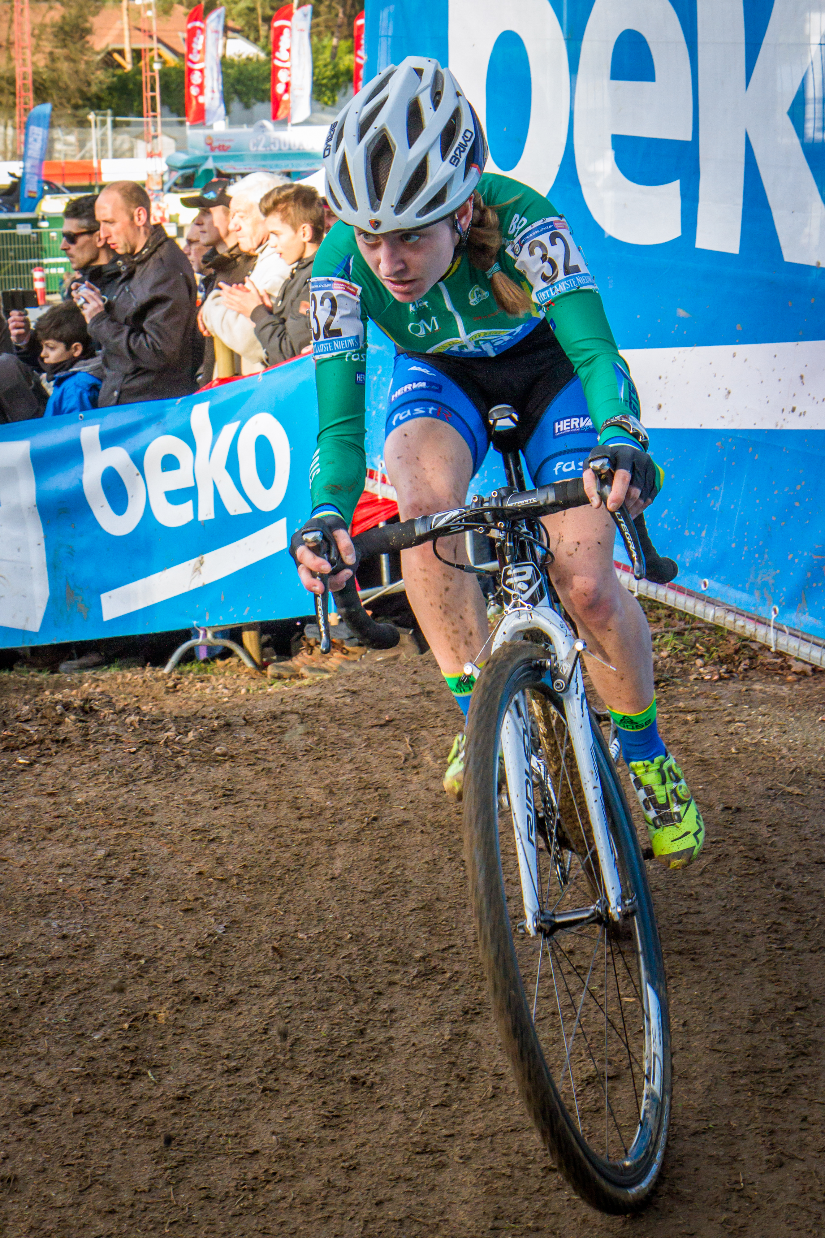 Nikola Noskova (CZE) AA-Drink/Kalas. UCI Cyclocross World Cup, Heusden-Zolder, Belgium, 2015.